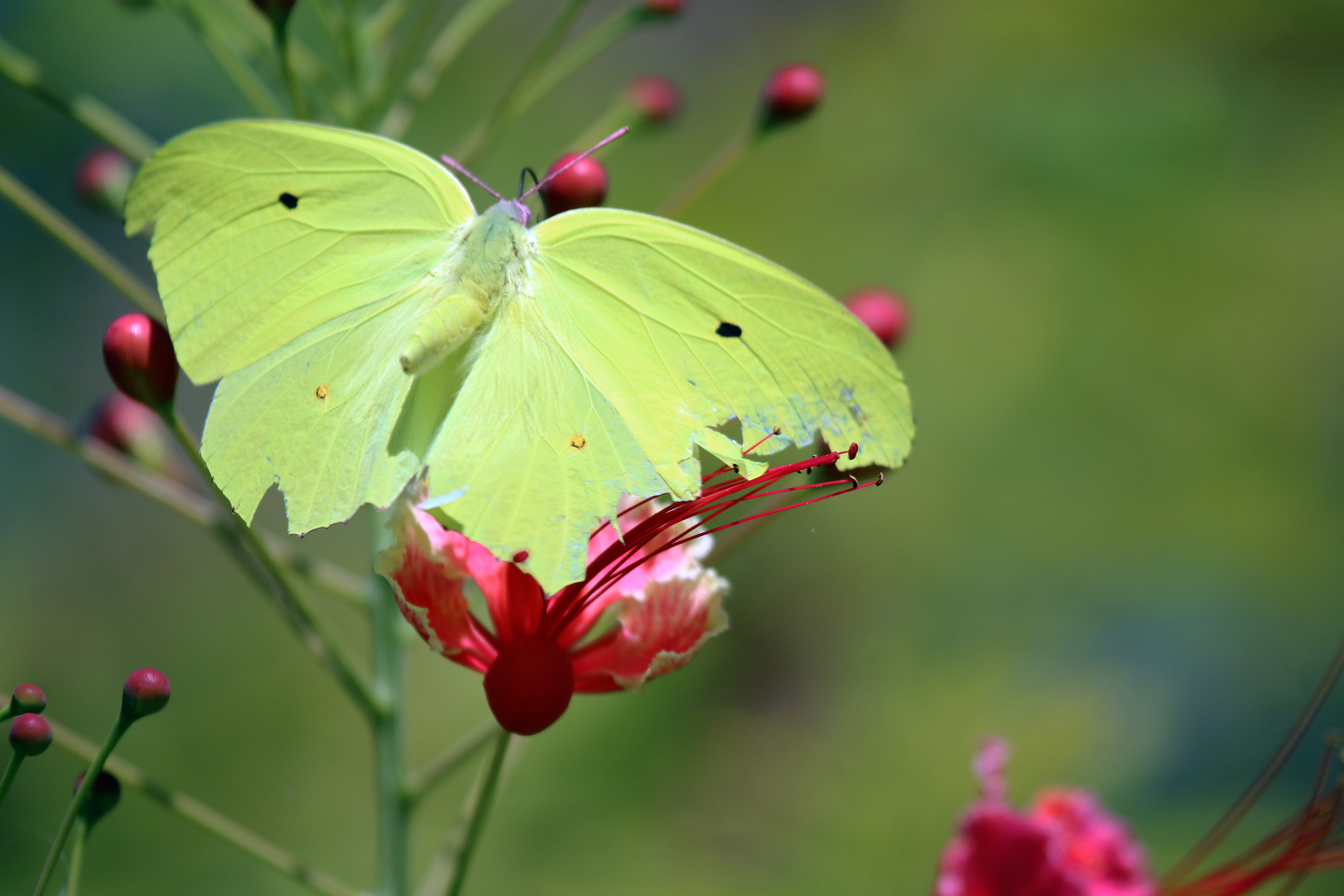 Yellow angled-sulphur butterfly (Anteos maerula) male in Jamaica